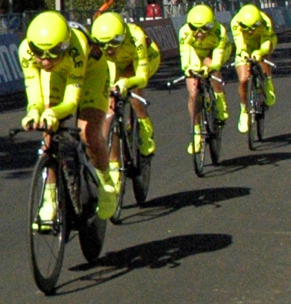 2013 UCI Road World Championships – Women's team time trial